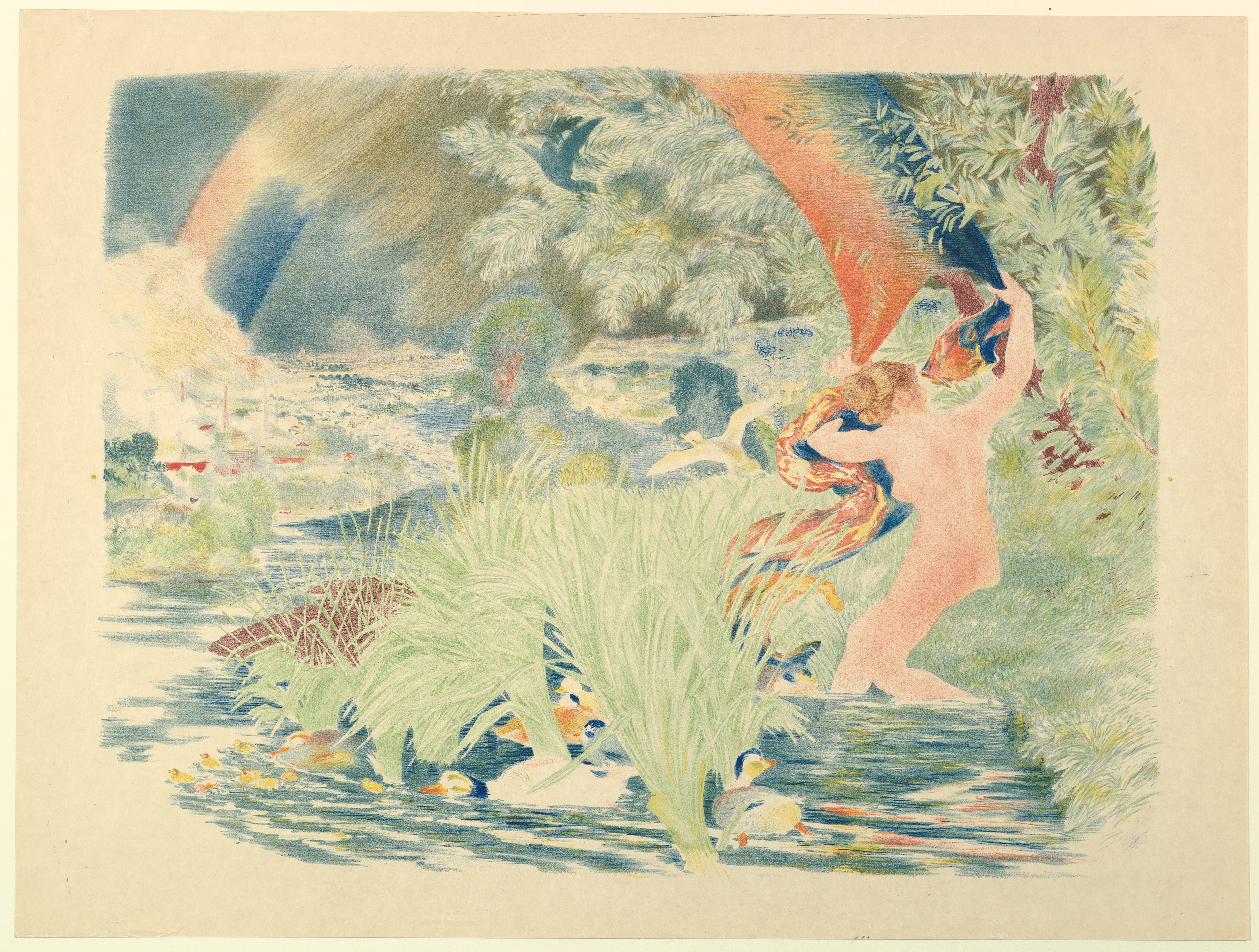 Print; Prints